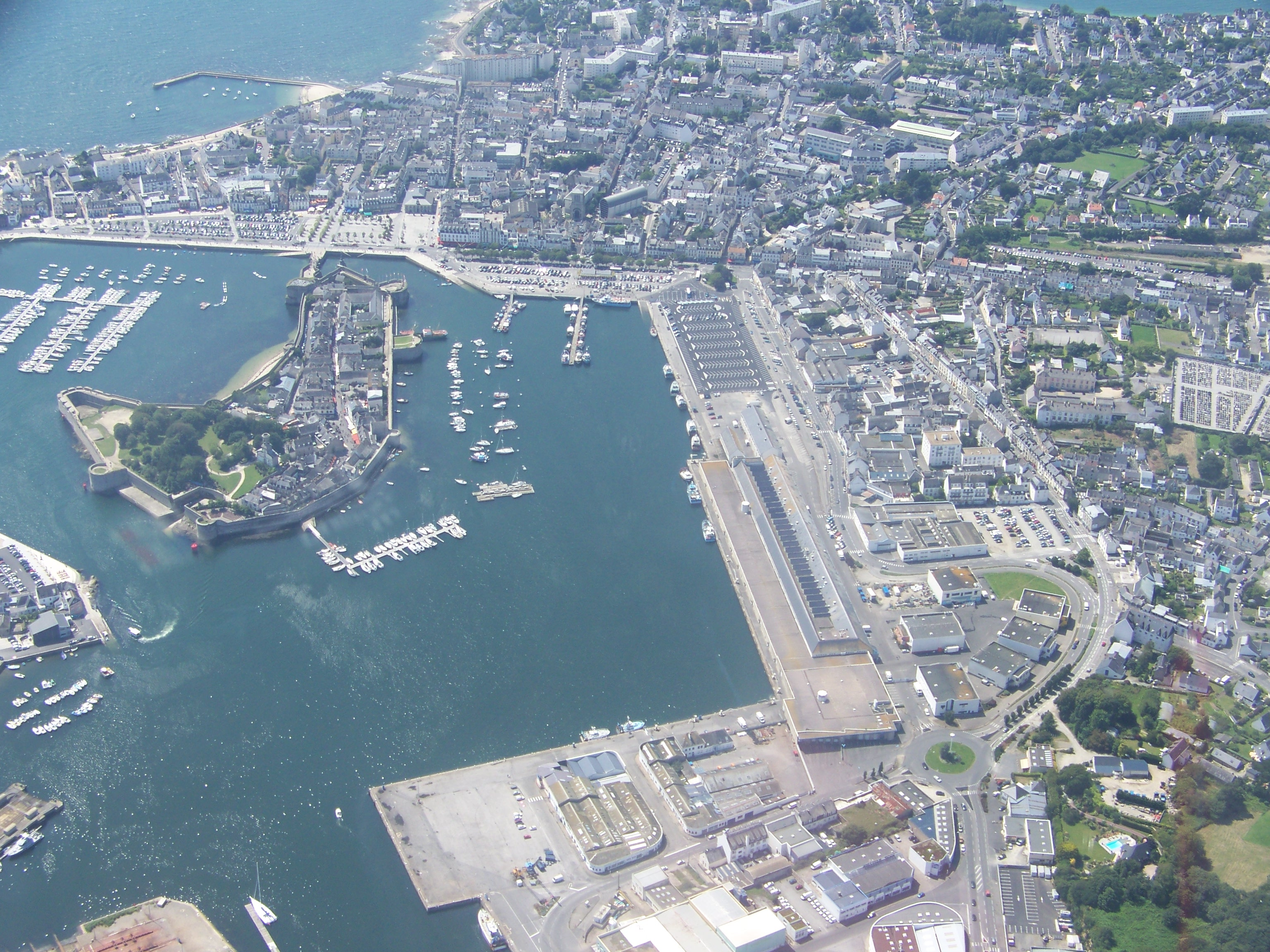 Overview of Concarneau while flying aboard a DR400 from Quimper to Quiberon